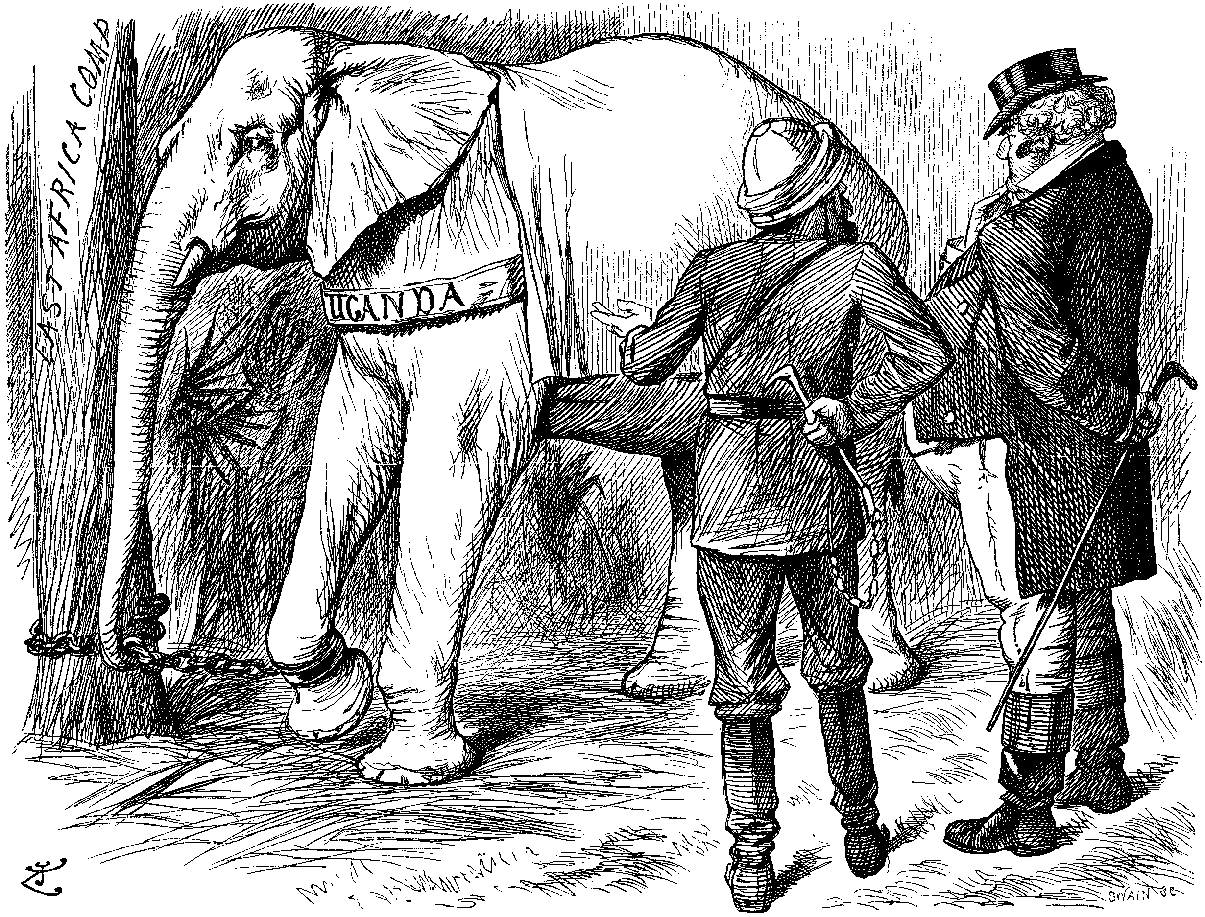 Illustration of an African explorer attempting to sell his white elephant to a wealthy man. A white elephant is an idiom for a valuable but burdensome possession of which its owner cannot dispose and whose cost (particularly cost of upkeep) is out of proportion to its usefulness or worth. In 1892, the British East Africa Company (as the explorer), which was the administrator of British East Africa (including the territory of Uganda, as the white elephant), was becoming increasingly ineffective in its venture as a commercial company with colonial administrative rights – amidst conflicts between rival factions, including the Kingdom of Buganda, French Catholic, and British Protestant missionaries. By 1894, the British government (as the wealthy man) had assumed administration rights of the territory and established the Uganda Protectorate, effectively dissolving the company. The title and caption (not shown): THE WHITE ELEPHANT. PRESENT PROPRIETOR (loq.). "SEE HERE, GOVERNOR! HE'S A LIKELY-LOOKING ANIMAL,—BUT I CAN'T MANAGE HIM! IF YOU WON'T TAKE HIM, I MUST LET HIM GO!!"